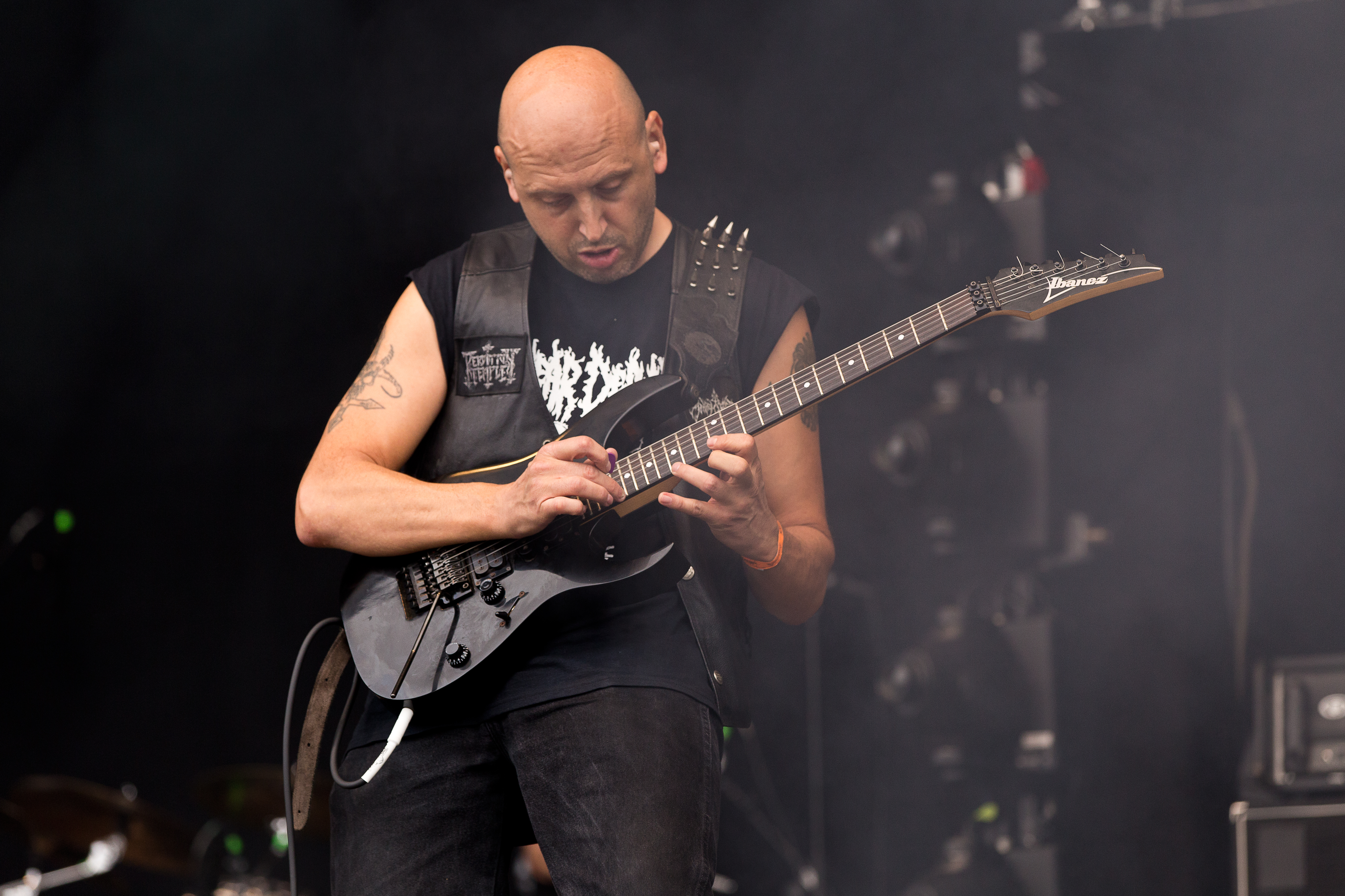 The American blackened death metal band Angelcorpse at the Party.San Metal Open Air 2016 in Obermehler-Schlotheim/Germany.